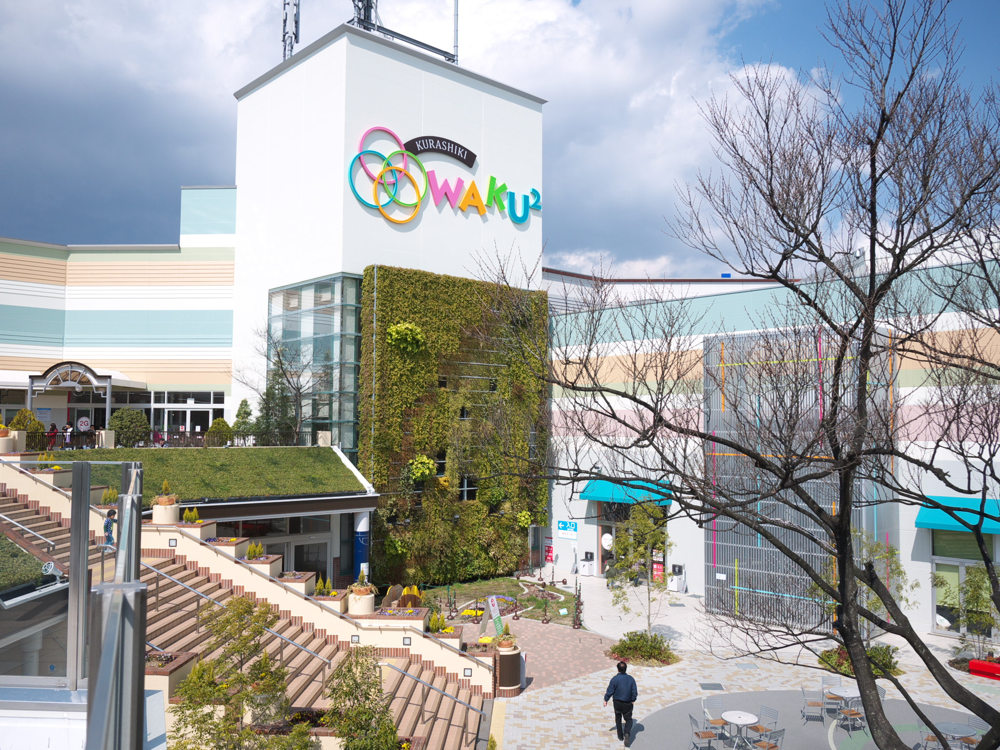 "WAKU WAKU Garden" at AEON Mall Kurashiki.